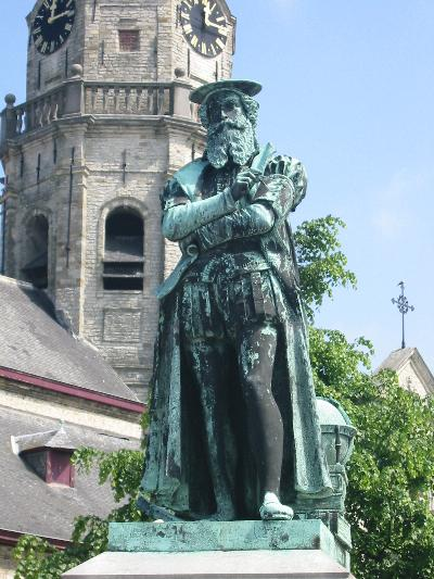 Statue for Mercator on the churchsquare in Rupelmonde (Belgium) by Frans van Havermaet, 1871